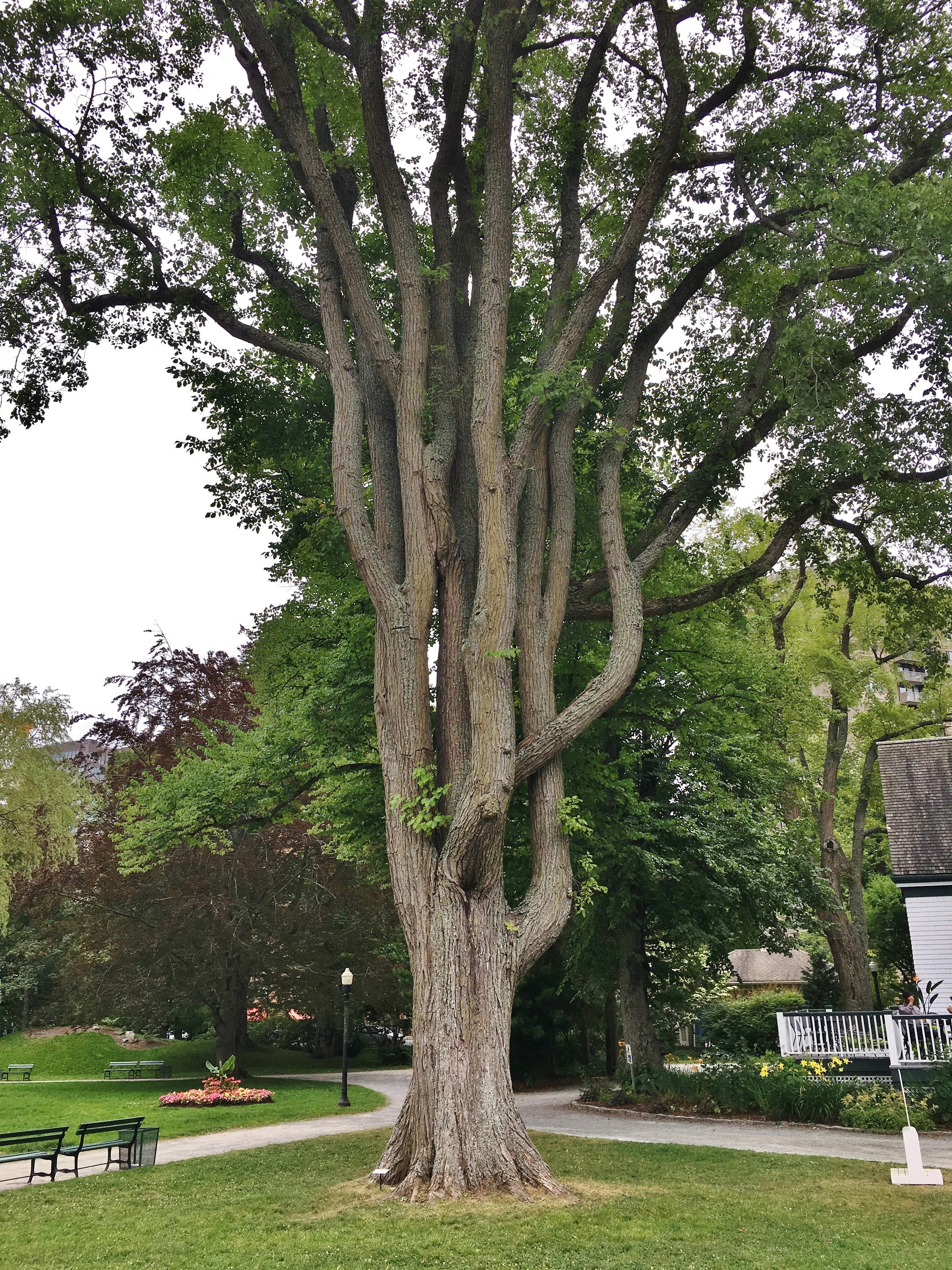 Photograph of an old American elm tree in Halifax Public Gardens, Halifax, Nova Scotia, Canada (August 2019)